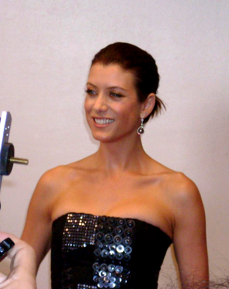 Actress Kate Walsh ("Grey's Anatomy") at 2009 WGA Awards in Century Plaza Hotel, Los Angeles.